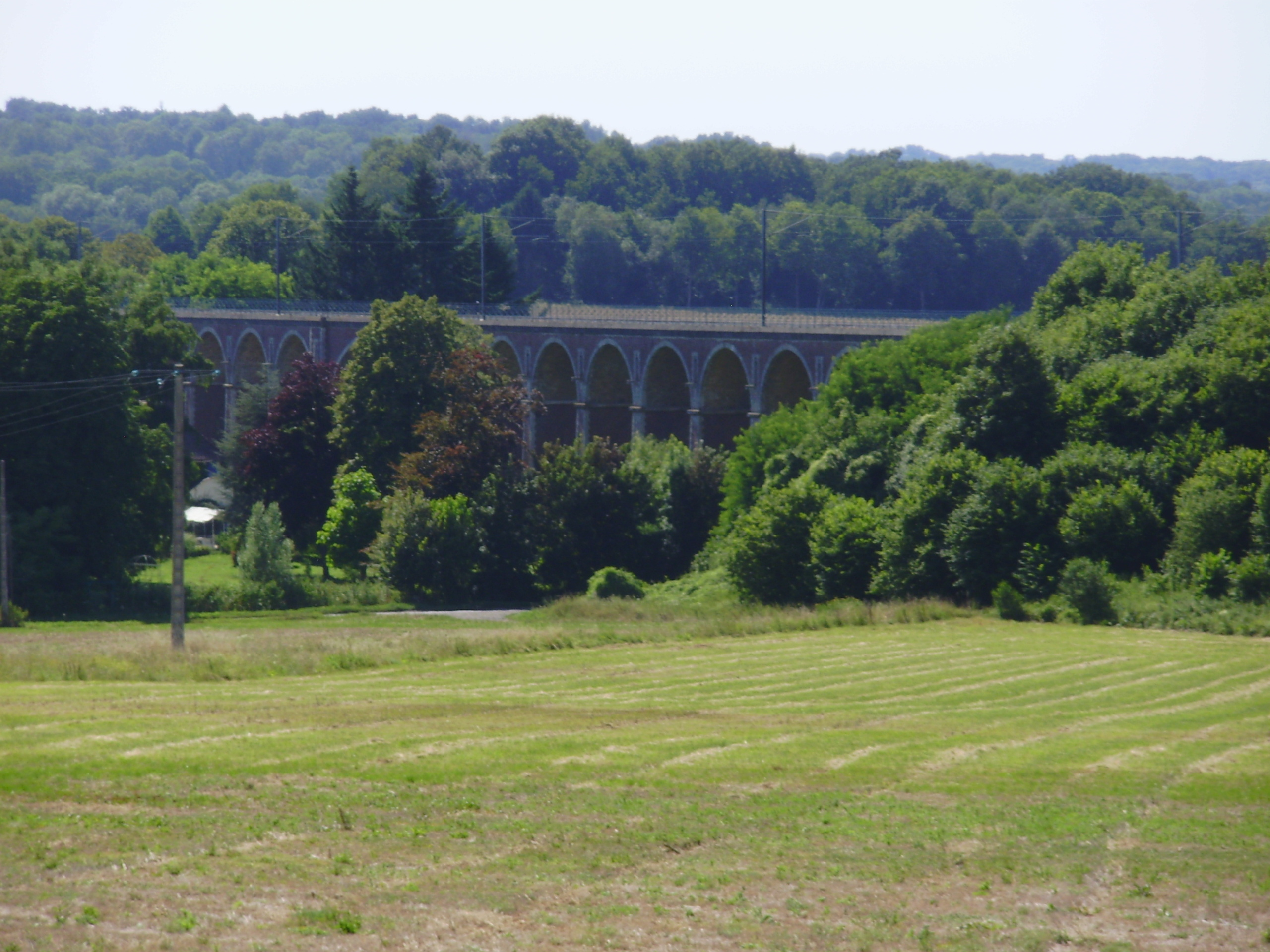 Railway bridge of the Aubetin, in Pommeuse, Seine-et-Marne, France, from the D15 road in the south-east of the viaduct